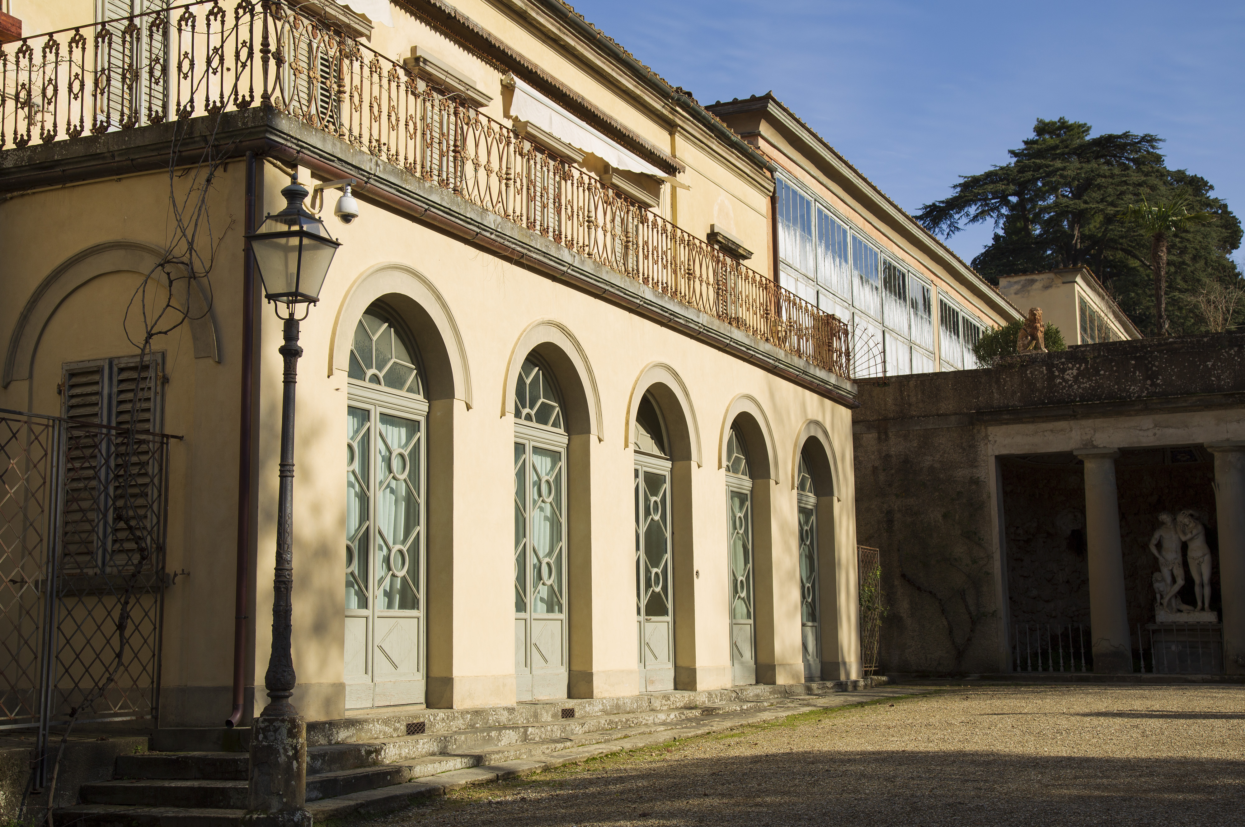 Headquarters of the National Institute of Etruscan and Italic Studies, Florence, Tuscany, Italy